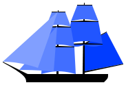 Hinted to 183 × 124. Best displayed as an integer multiple of those dimensions.